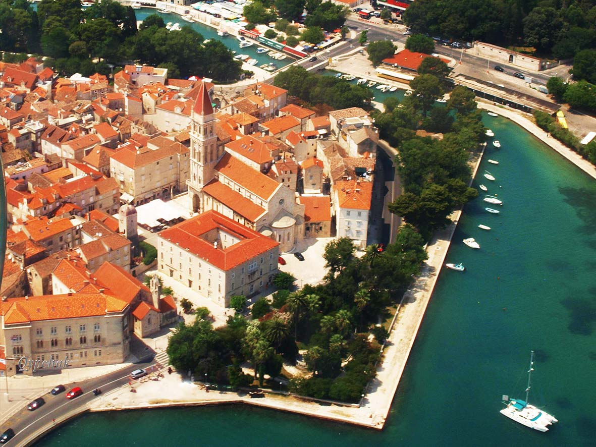 Old town Trogir. Air view